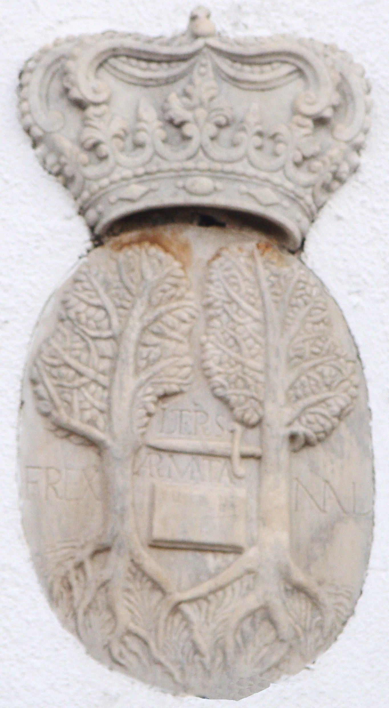 Escudo de Fregenal en la fachada del Ayuntamiento